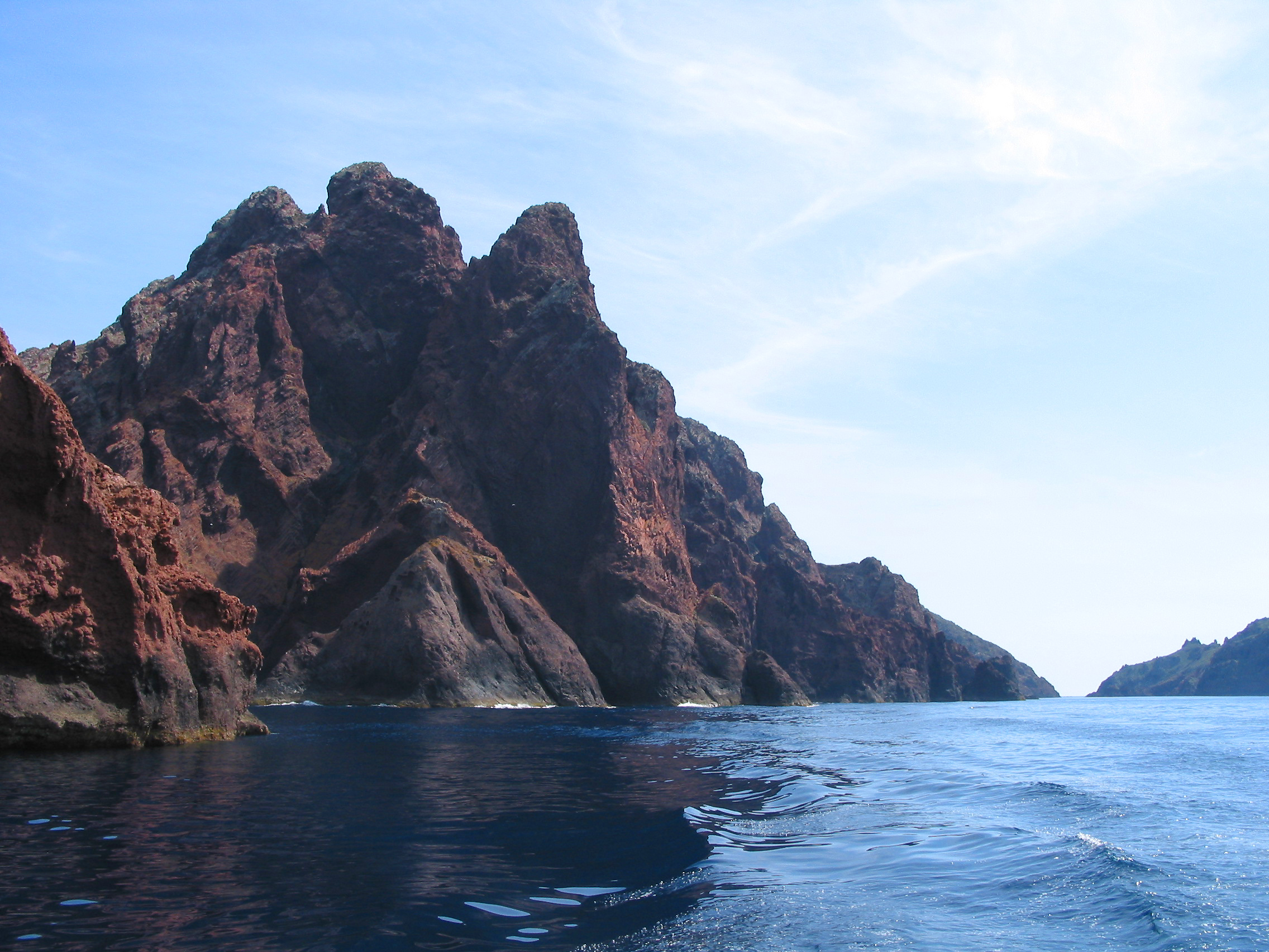 Osani (Corse-du-Sud) - France, Scandola Nature Reserve.